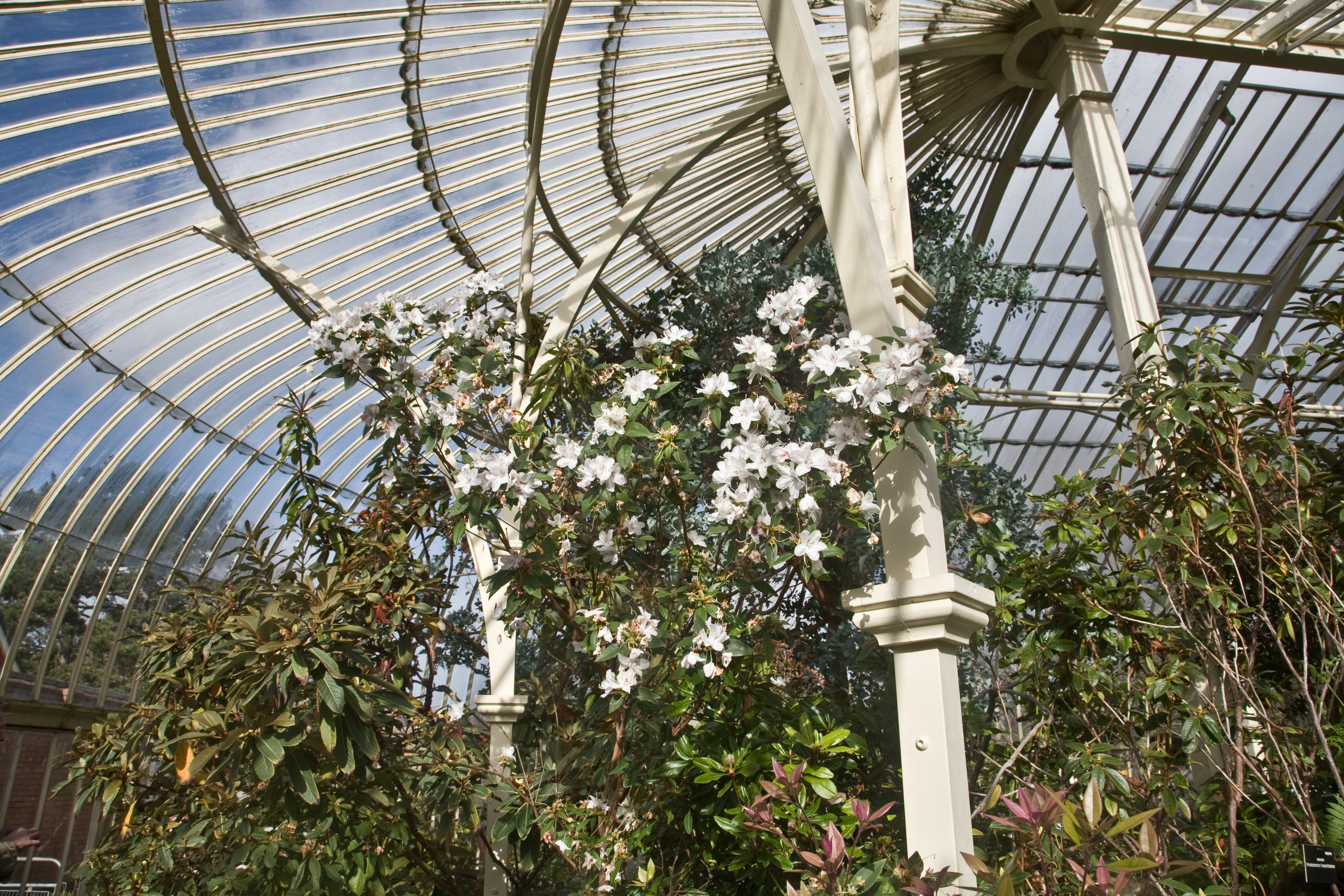 The Irish National Botanic Gardens, Glasnevin, Dublin, Ireland. The Curvilinear Range of Glasshouses at the national Botanic Gardens were constructed between 1843 and 1869 and designed by native Dubliner Richard Turner. He was also responsible for designing the Glasshouse at Kew Gardens (England) and Belfast (N. Ireland) but both of these have been 'restored' with the use of steel. The Curvilinear Range was restored in 1995 with repairs carried out in the original wrought iron. Internally the houses feel amazingly light and even though, slim and elegant, much of the structure had decorative elements.